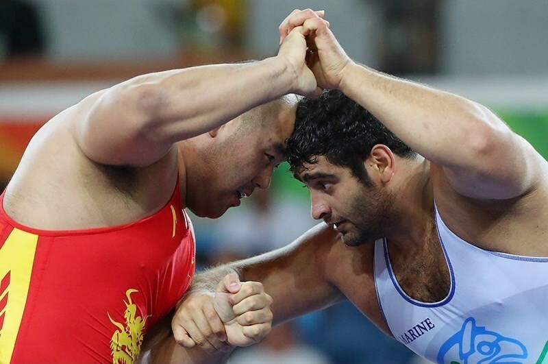 2016 Summer Olympics, Greco-Roman Wrestling 130 kg. Bashir Babajanzadeh (right, from Iran) vs Neng (China)